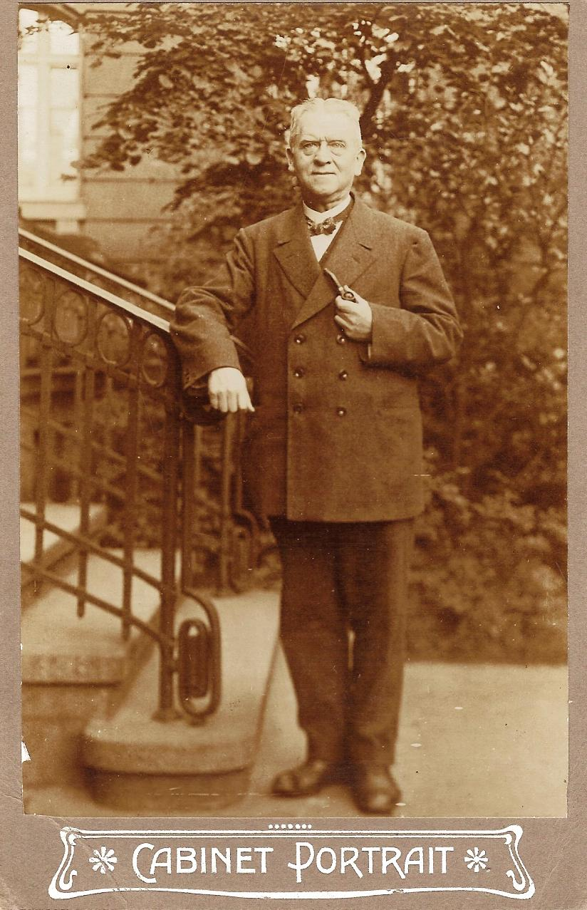 Hermann Litt, a German theater director and actor, few years before his death.